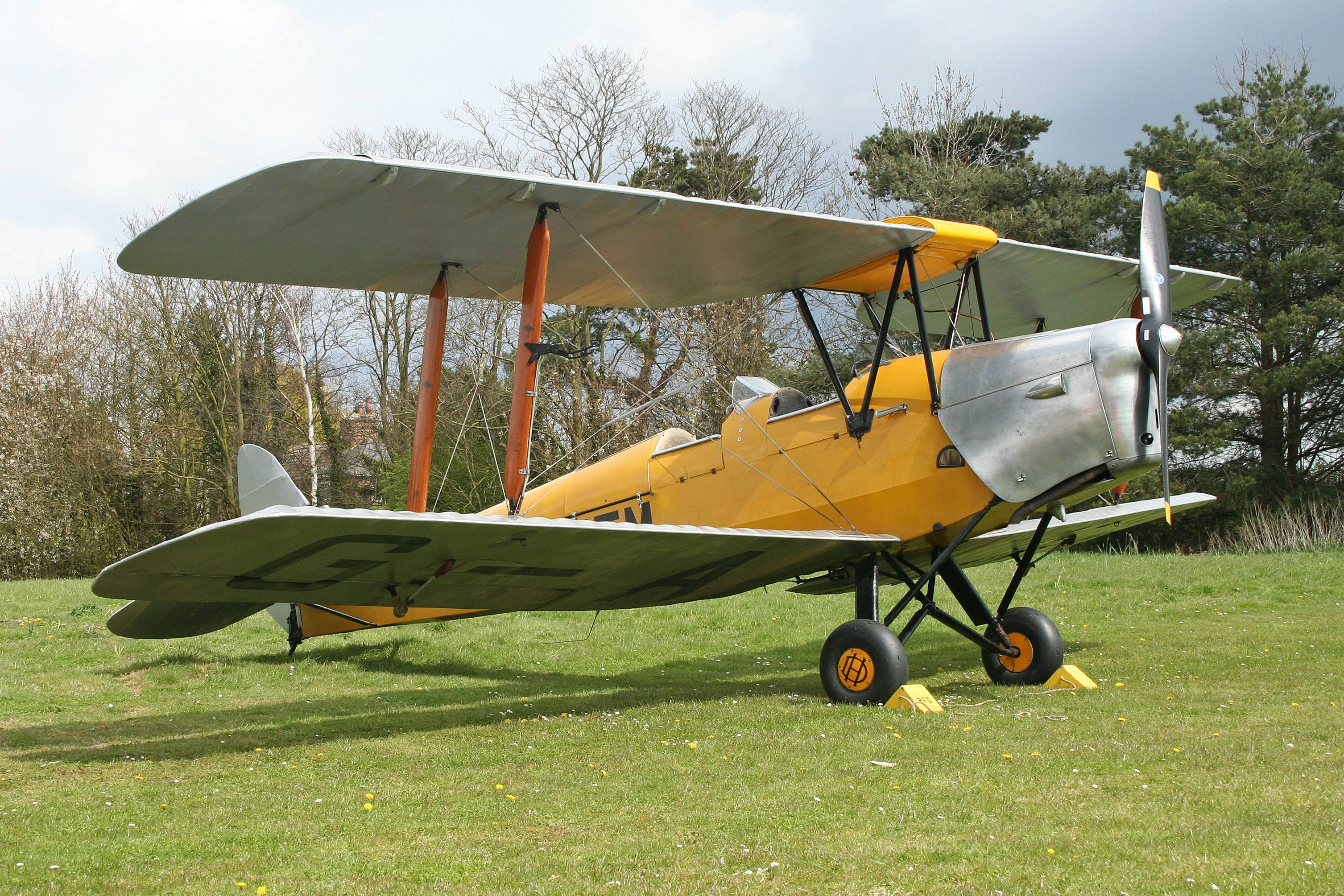 Saw RAF service as 'T5888'. msn 83604. A classic visitor at the 2012 VAC and Daffodil Fly-in. Fenland Airfield. 14-4-2012